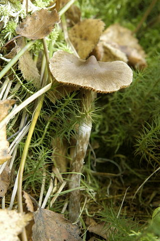 Cortinarius decipiens from Commanster, Belgium. If you think this is a different taxon, please contact James Lindsey.